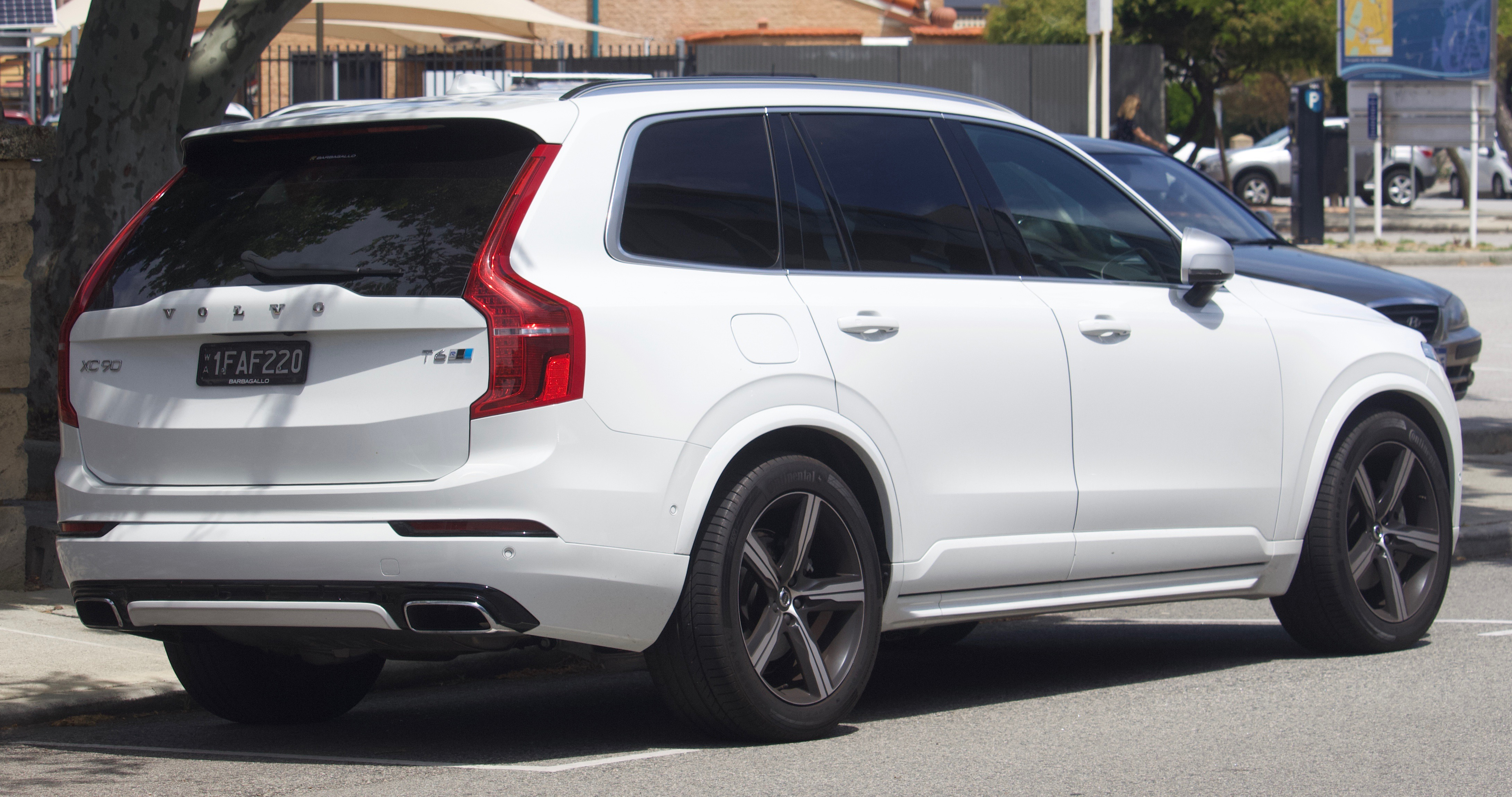 2018 Volvo XC90 T6 R-Design wagon. Photographed in Fremantle, Western Australia, Australia.